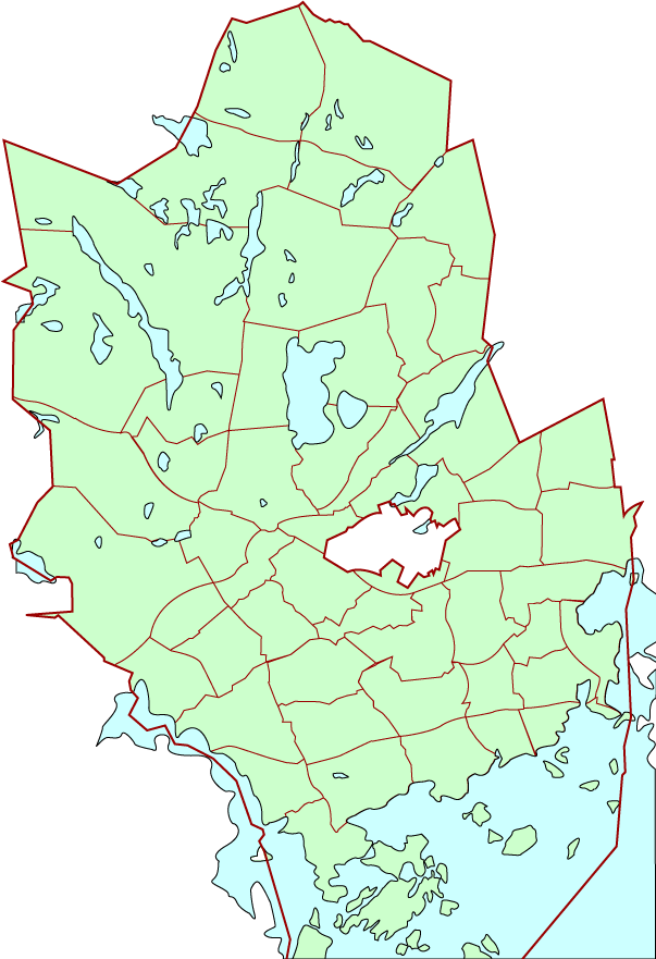 The districts of Espoo city, Finland